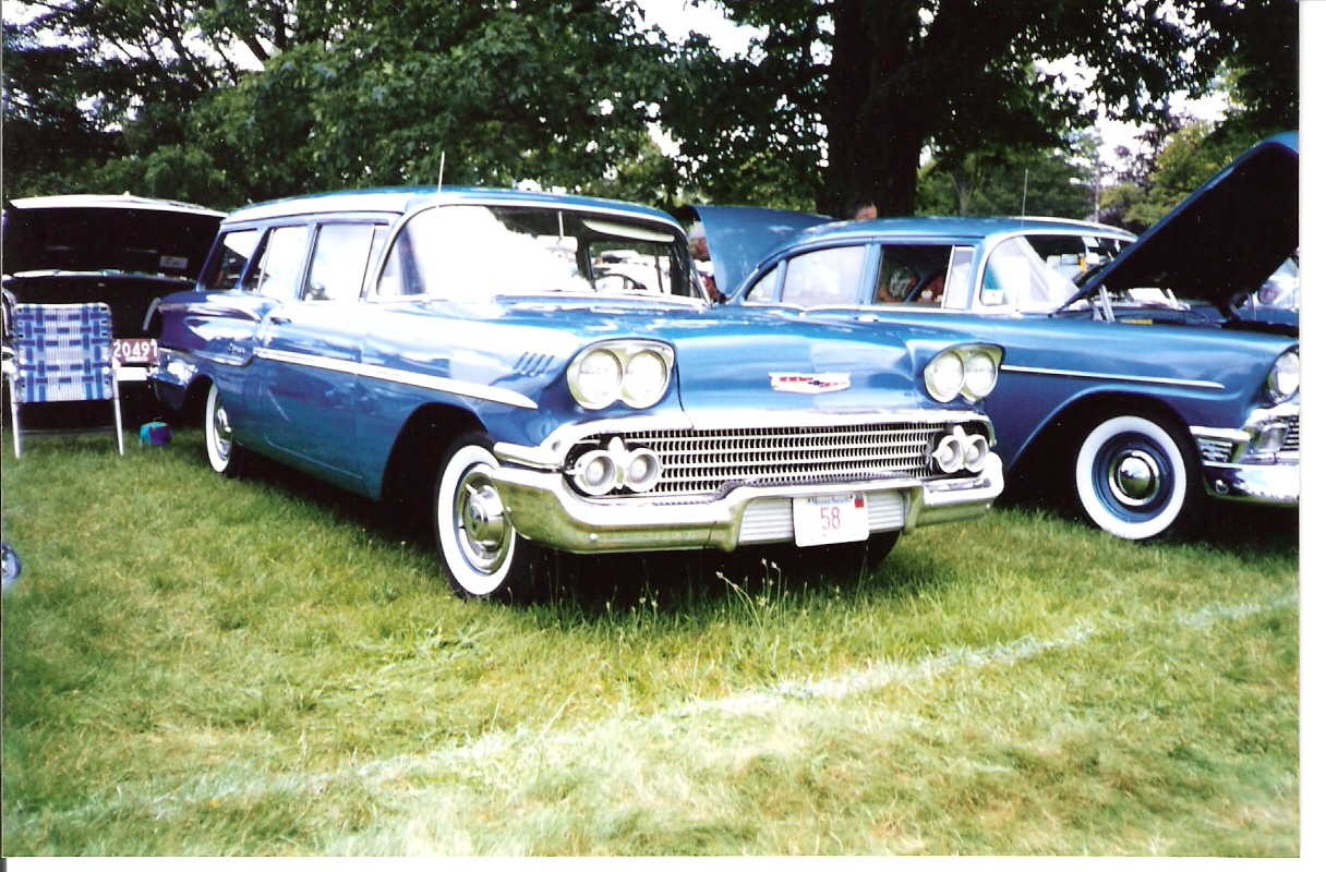 1958 Chevrolet Yeoman 2-door station wagon that I photographed at Endicott Estate in Dedham, Massachusetts.